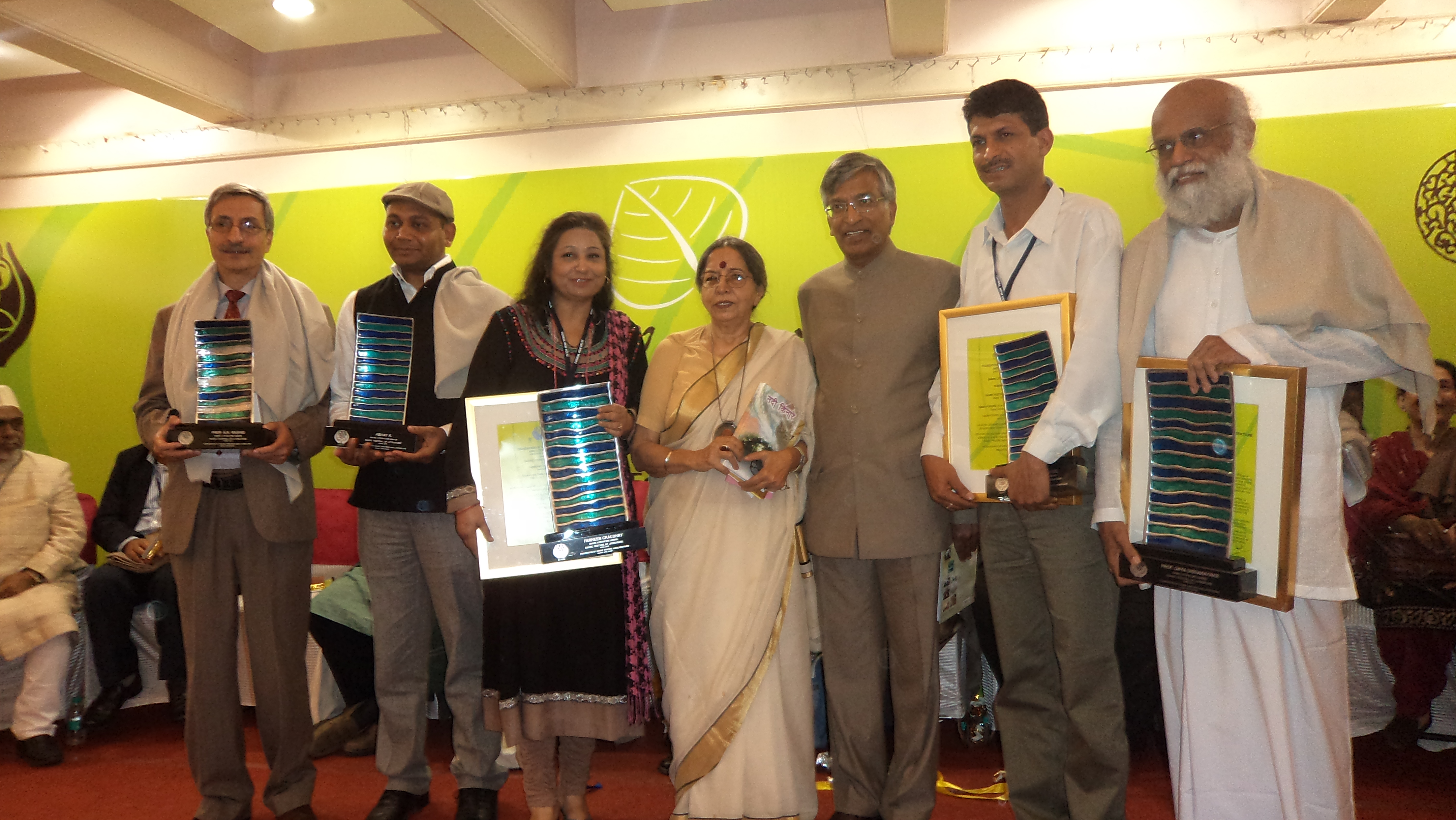 A group photo of SAARC Literary Award 2013 recipants Abdul Khaliq Rashid, Abhay K, Farheen Chaudhary,Suman Pokhrel and Daya Dissanayake with FOSWAL President Ajeet Cour and ICICI CEO Suresh Goel